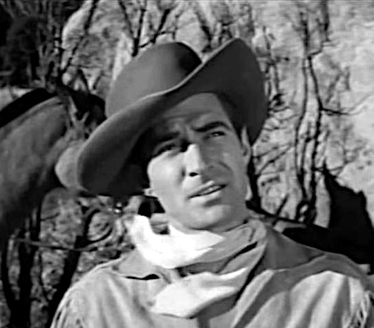 Jock Mahoney in the TV series The Range Rider, episode The Buckskin (cropped screenshot)